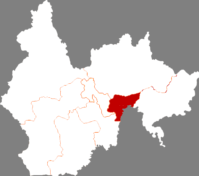 Location of Tumen county-level city in Yanbian Korean Autonomous Prefecture, China